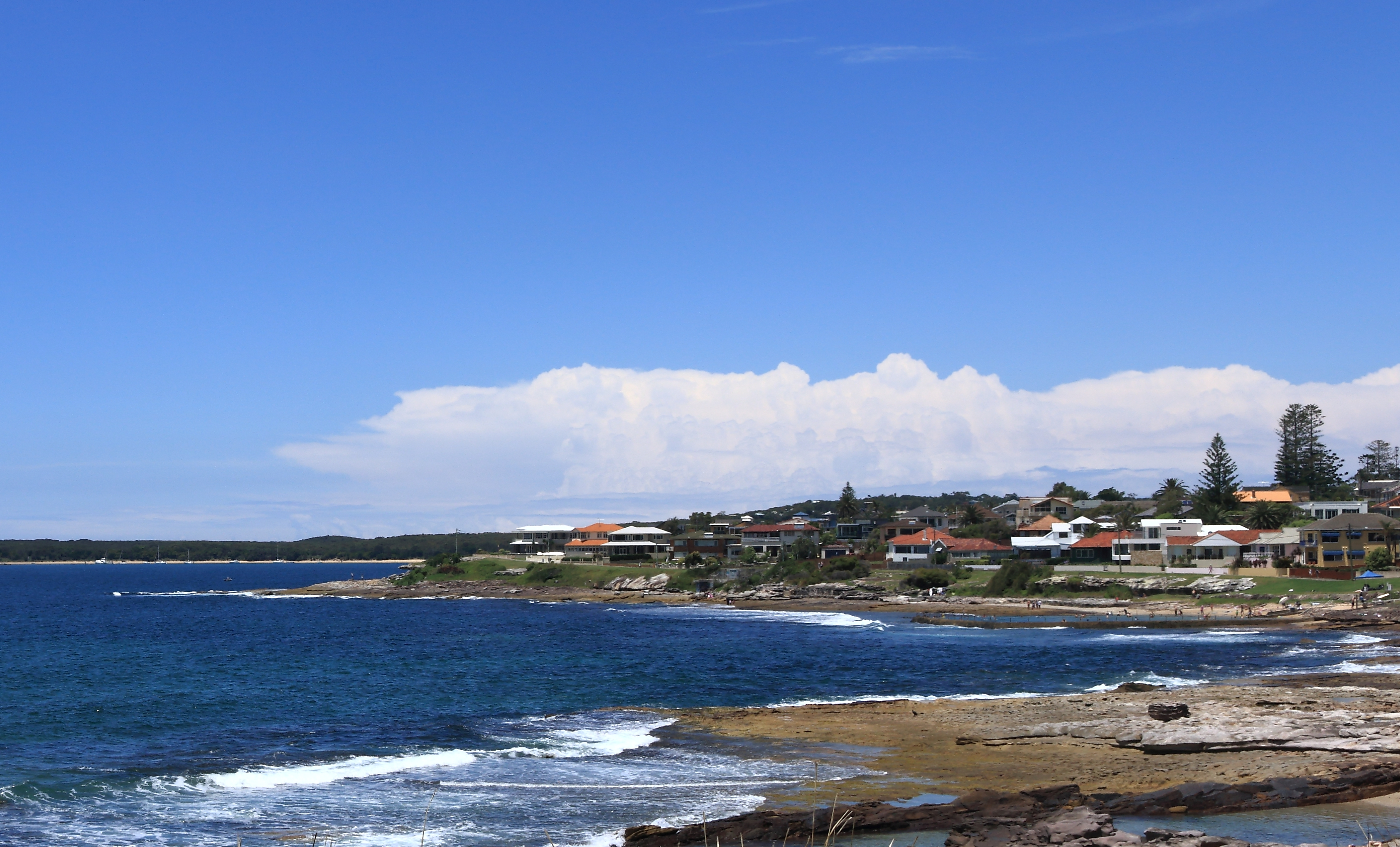 Storm clouds over the Royal National Park, Sydney, NSW Australia